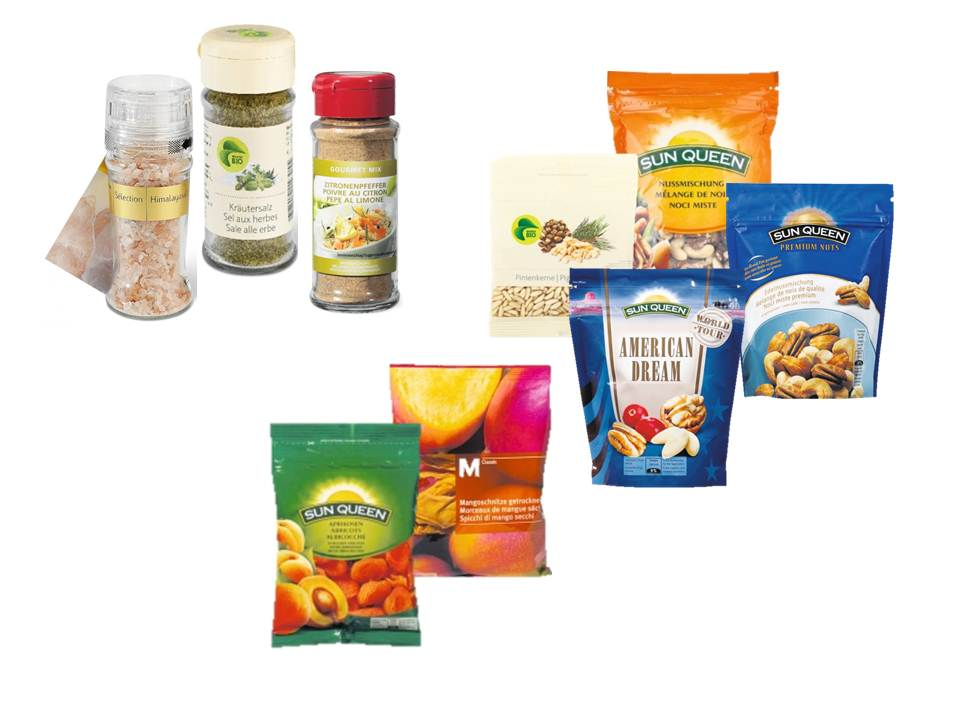 Dried Fruits, nuts and spices by Delica